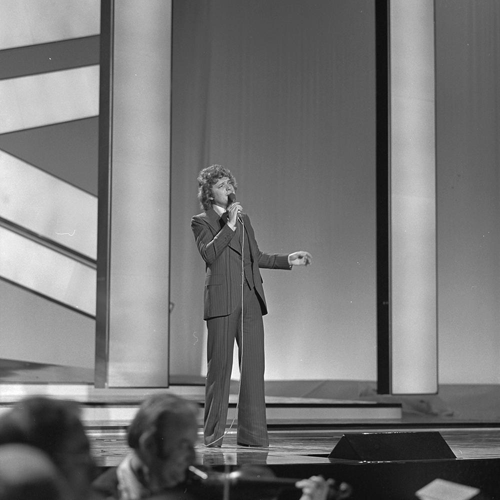 Jürgen Marcus at a rehearsal for the Eurovision Song Contest 1976.